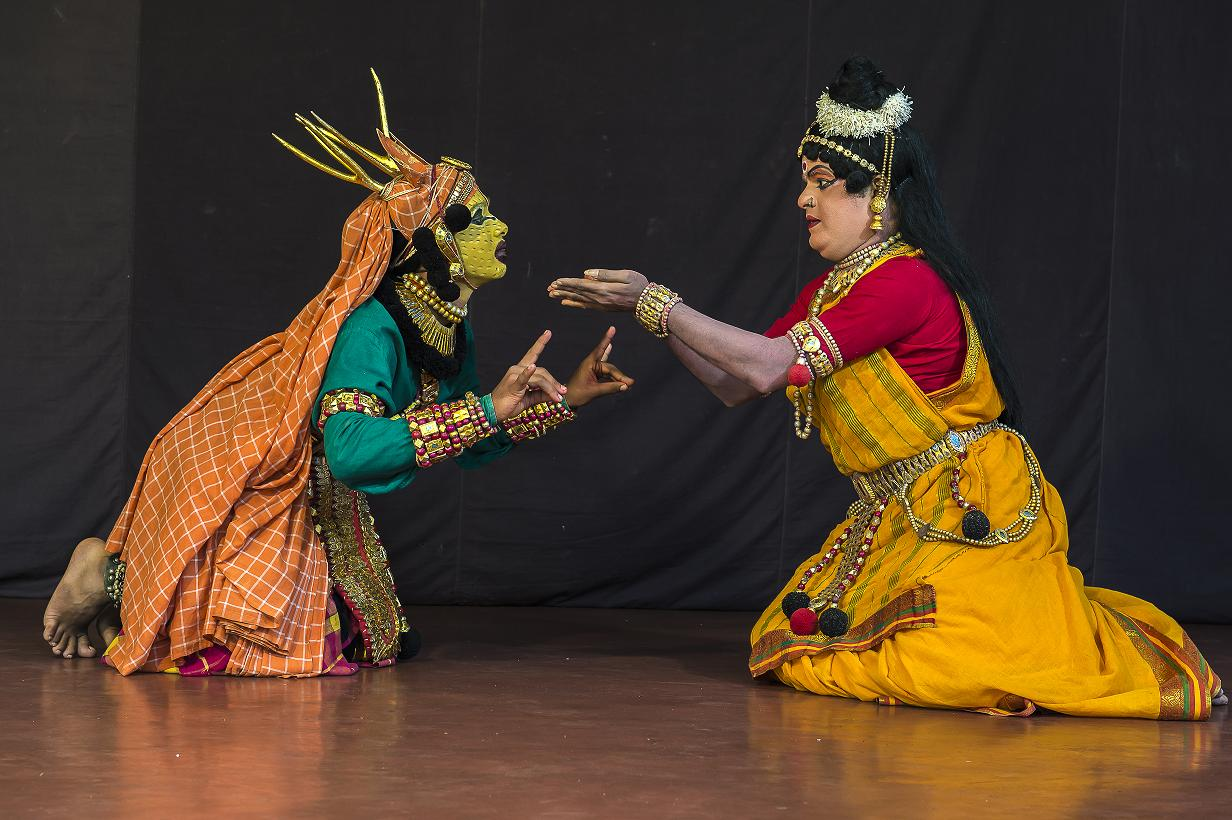 Jatayu